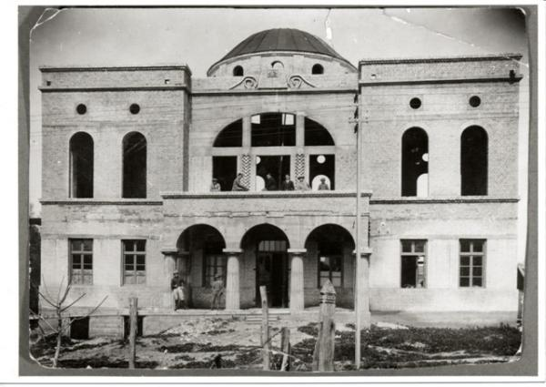 The Łomża yeshiva (Jewish religious school, named after the Polish city) in Herzl Street, Petah Tikva, as photographed during the 20ies.